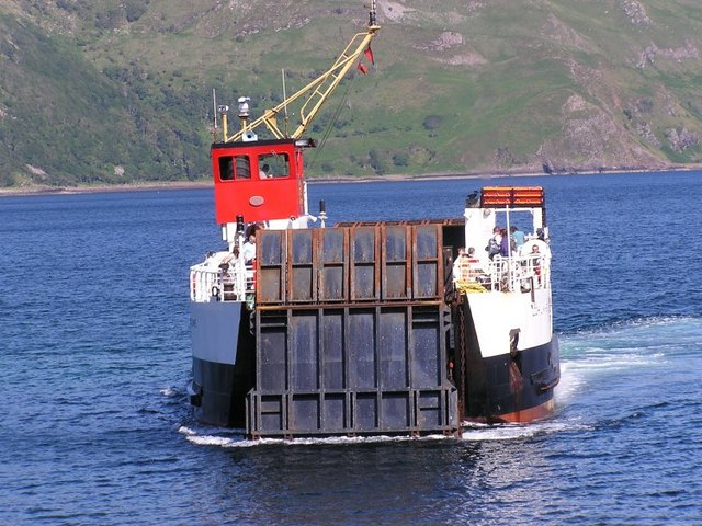 Kilchoan to Tobermory ferry, Loch Linnhe about to arrive at Kilchoan.